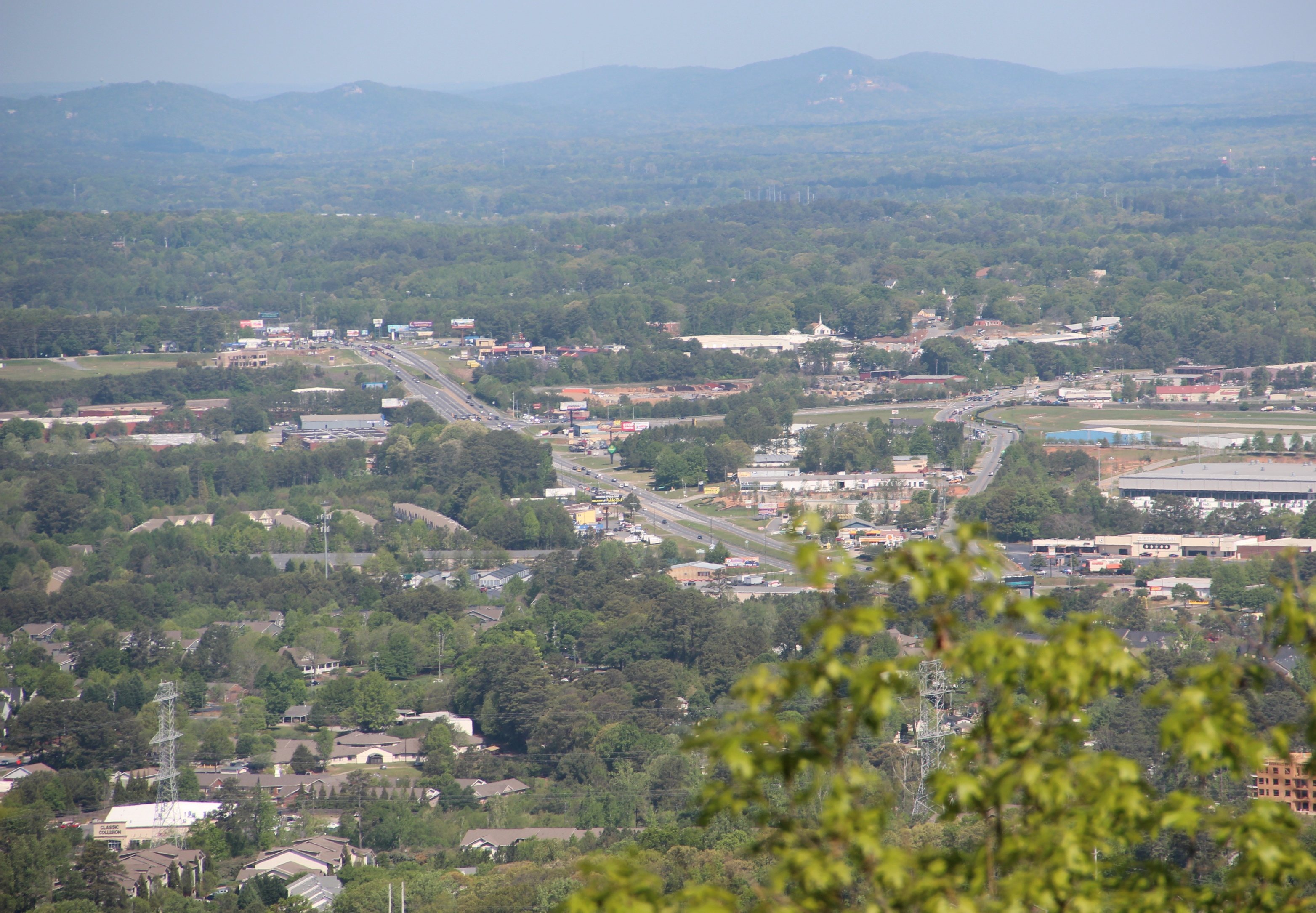 US 41 viewed from Kennesaw Mountain